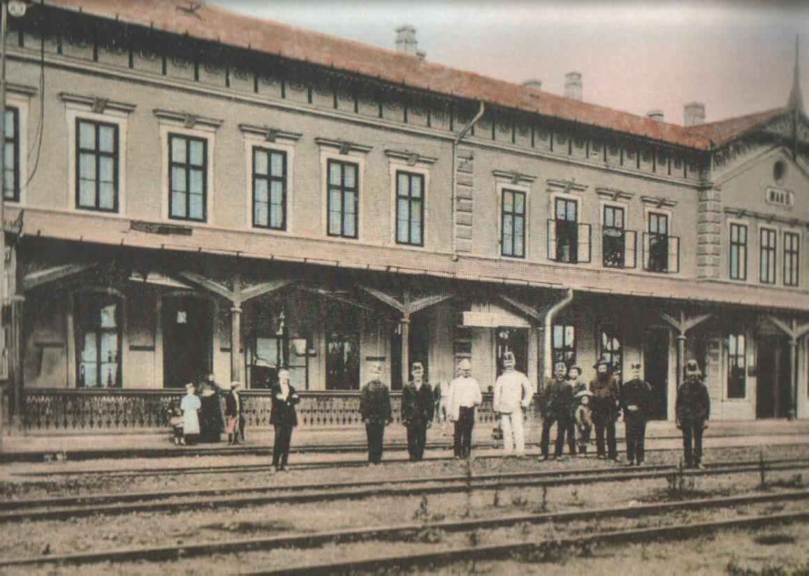 Old railway station of Makó, Hungary